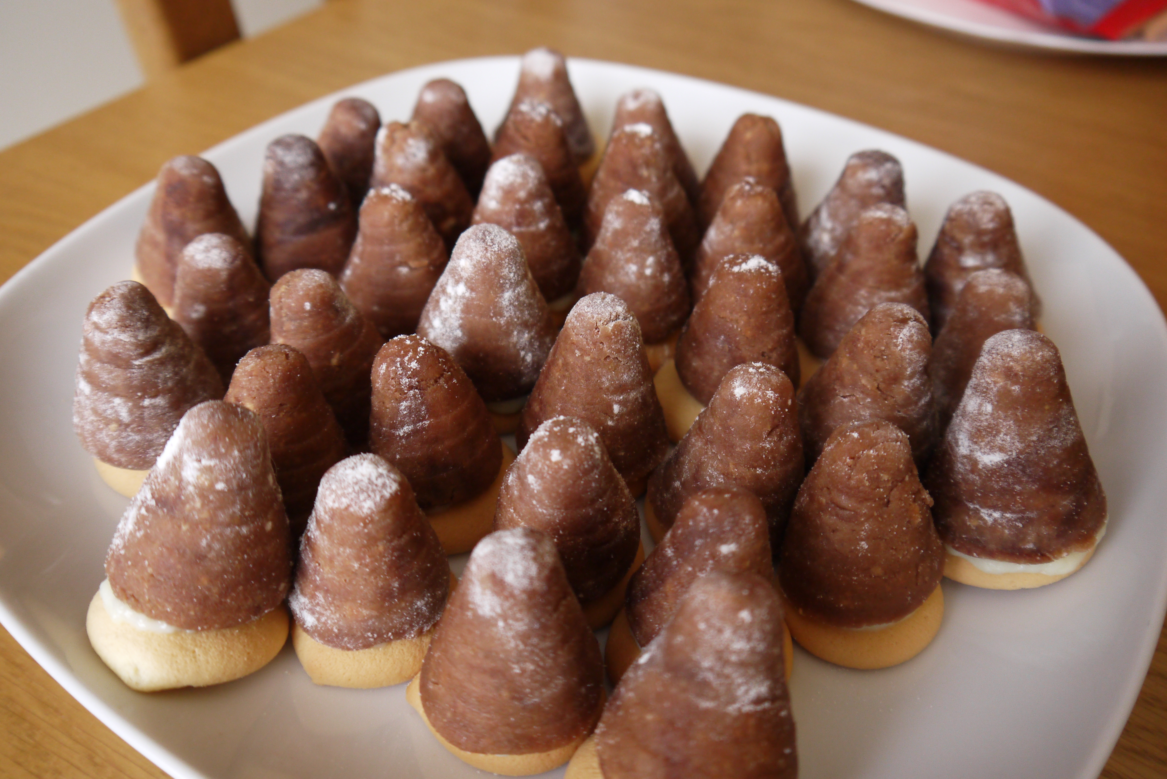 Vosí hnízda (wasp hives) – traditional Czech Christmas sweets